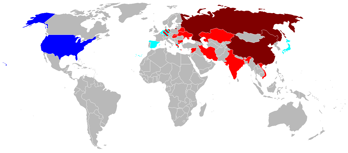 Past and present producers and customers of the S-300 strategic surface-to-air missile system, and its main competitor, the MIM-104 Patriot.